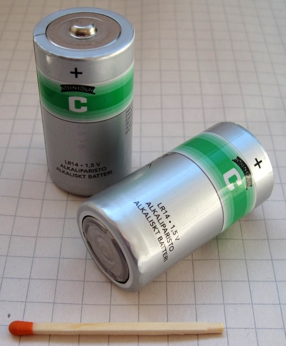 2 C type batteries with a matchstick for comparison. This is an ordinary matchstick like the kind that comes in match boxes. It is not a giant or super matchstick, in fact you probably have one in your home right now!